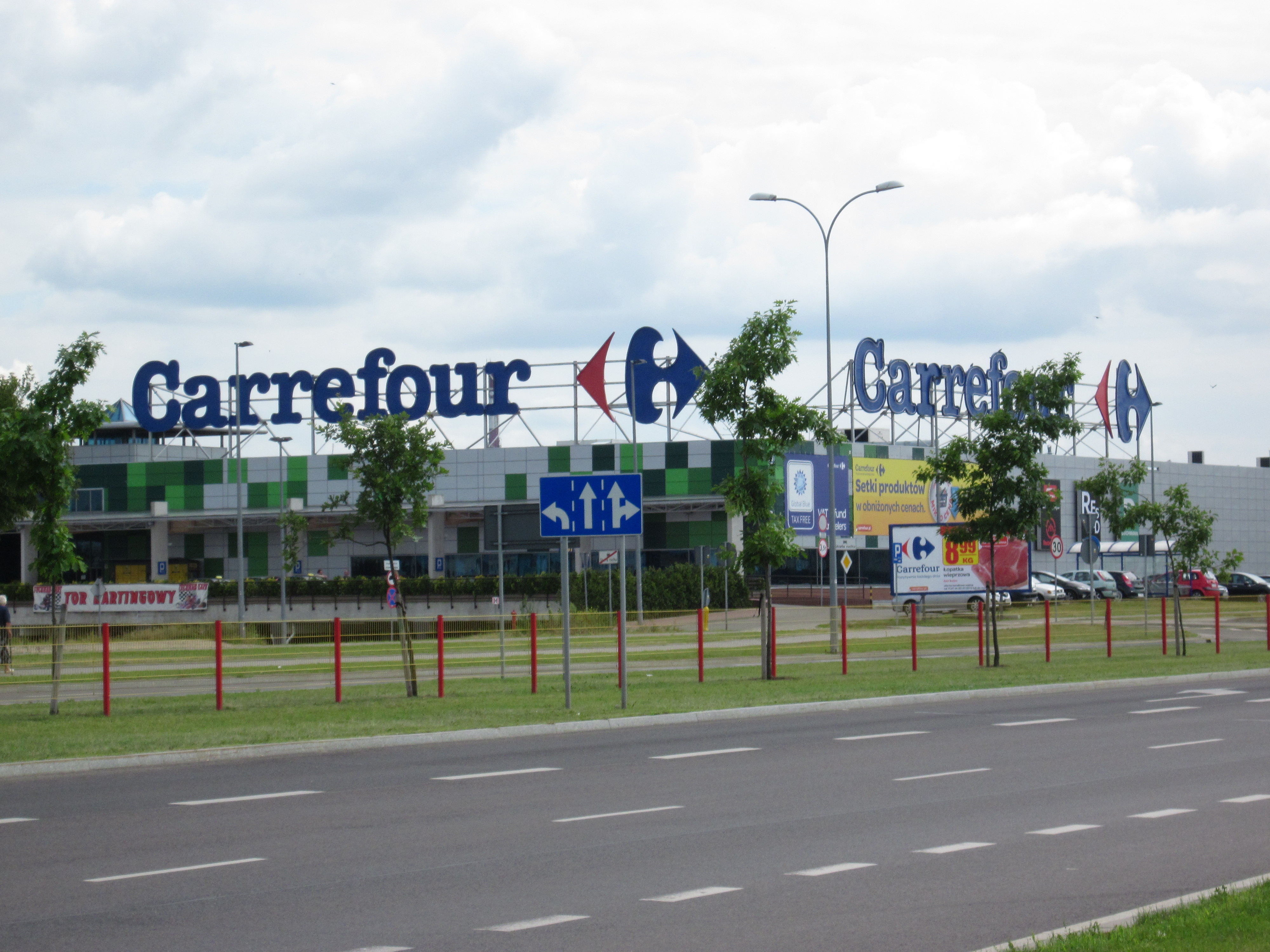 Białystok. Gallery of Green Gables (Carrefour) - shopping center, located within the streets, Wrocławska, Słonecznikowa and Zielonogórska.